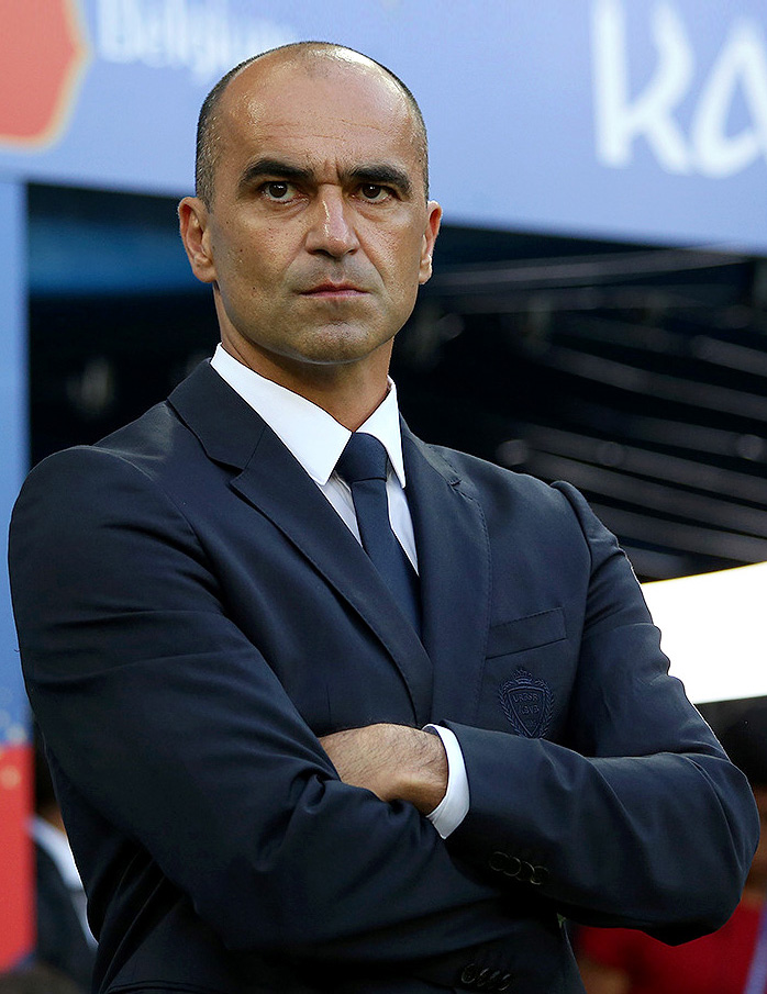 Spanish football manager Roberto Martínez on 28 June 2018, during the 2018 FIFA World Cup group stage match between England and Belgium.